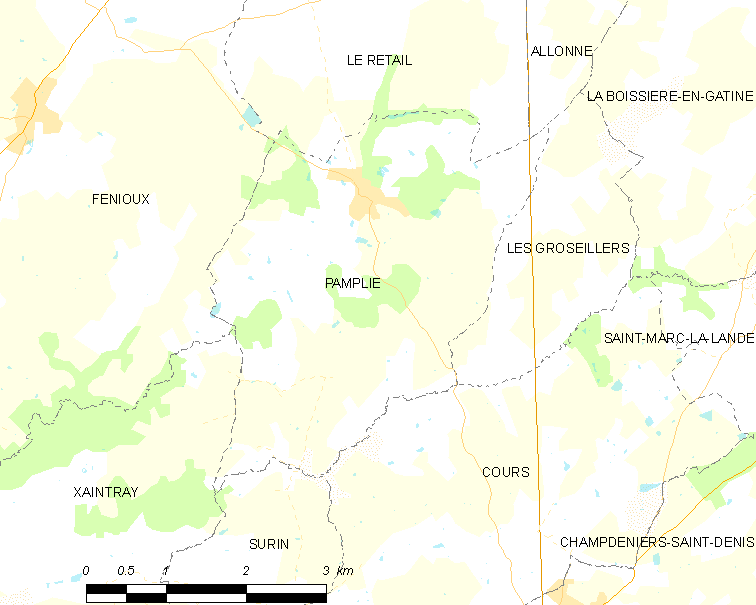 Map of French municipality Pamplie